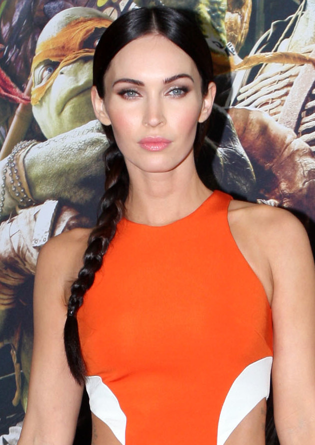 Teenage Mutant Ninja Turtles Special Event Screening - Megan Fox, Will Arnett